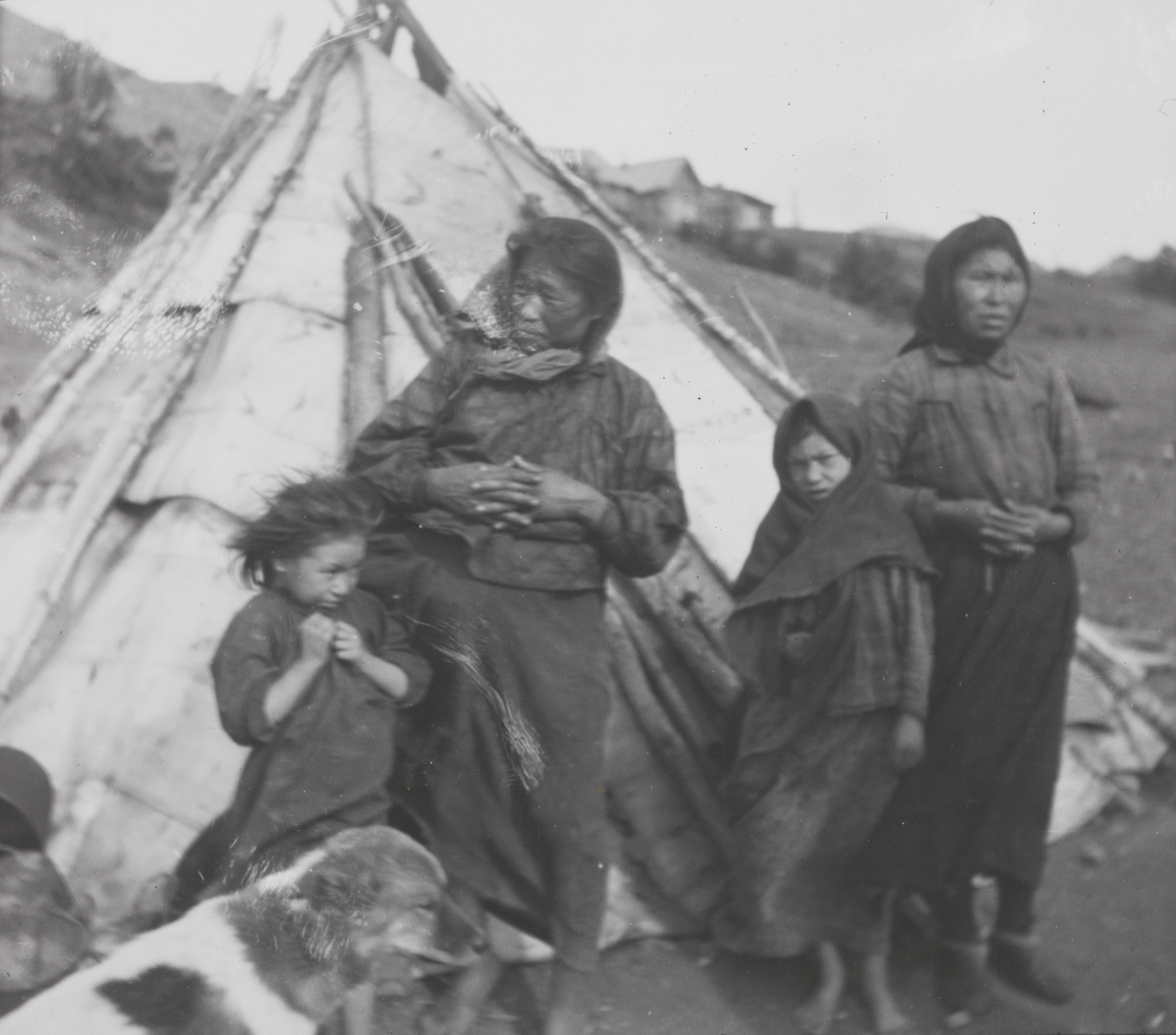 Kete (ethnic group) women and children in front of their tent, which was made from birch bark. One of the pictures from the journey to Siberia between Aug. 2 and Oct. 26, 1913. Fridtjof Nansen continued his trans-Siberian journey in a small steamer up the Yenisei River to Yeniseisk.